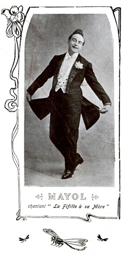 Félix Mayol singing La Fiflle à sa mère, in Paris qui chante n° 250, November 5th 1907, p.6 (imag. 1)